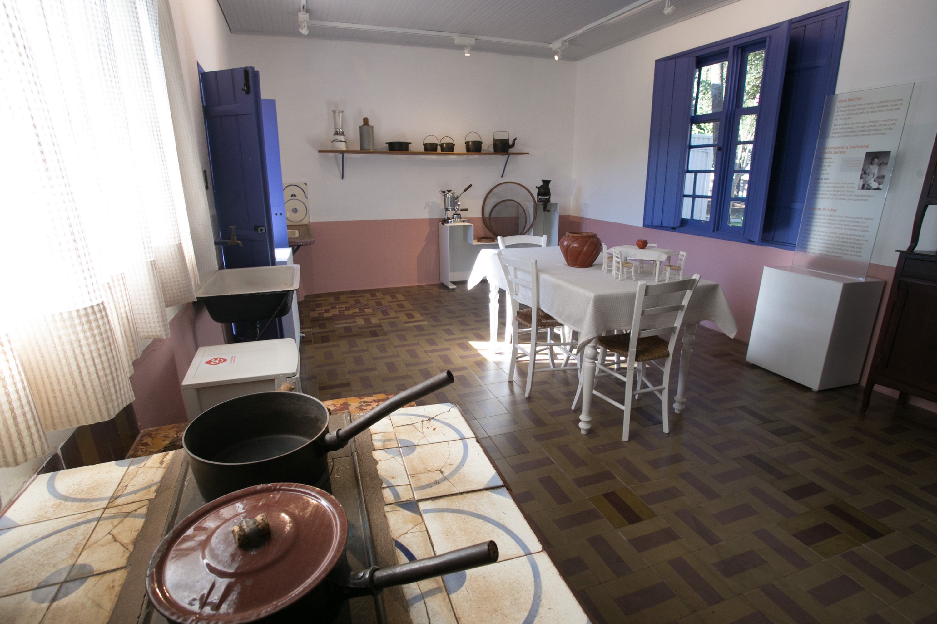 Governador Geraldo Alckmin entrega reforma do Museu Casa Candido Portinari, em Brodowski. Data: 30/05/2014. Local: Brodowski/SP. Foto: Alexandre Moreira/A2 FOTOGRAFIA